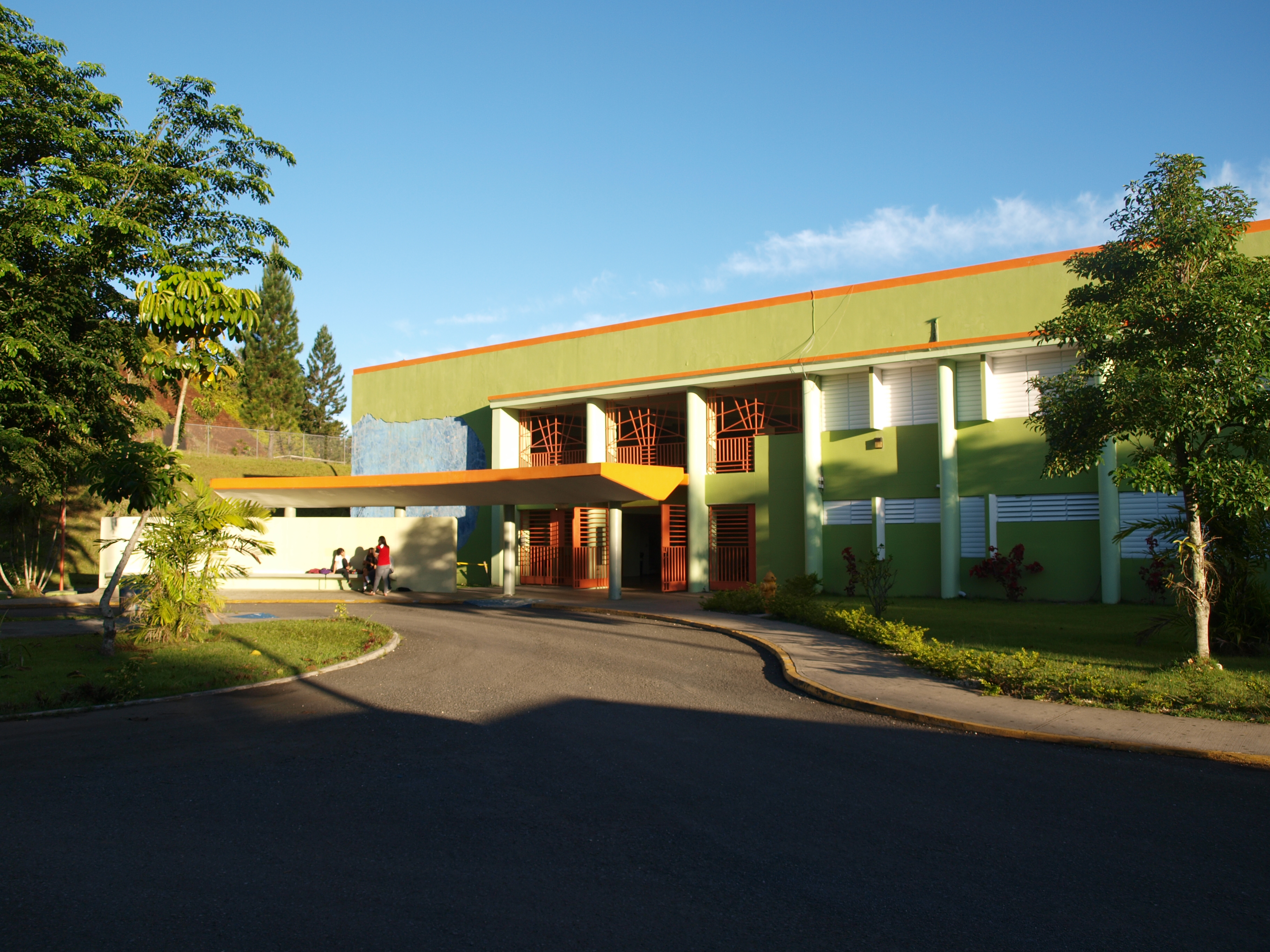 By Felix López May 4, 2012 Maricao, Puerto Rico Endangered Species Day Celebration